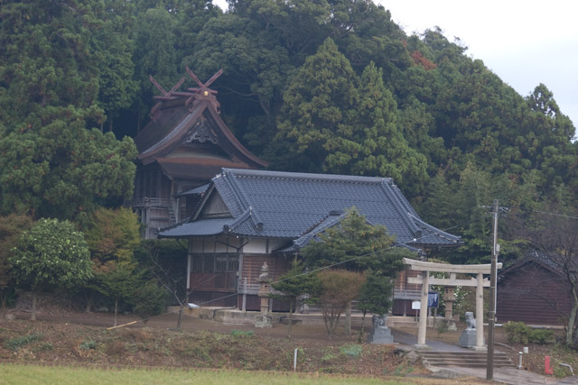 Uduka Mikoto Jinja Shrine in ama town, Shimane prefecture, Japan.